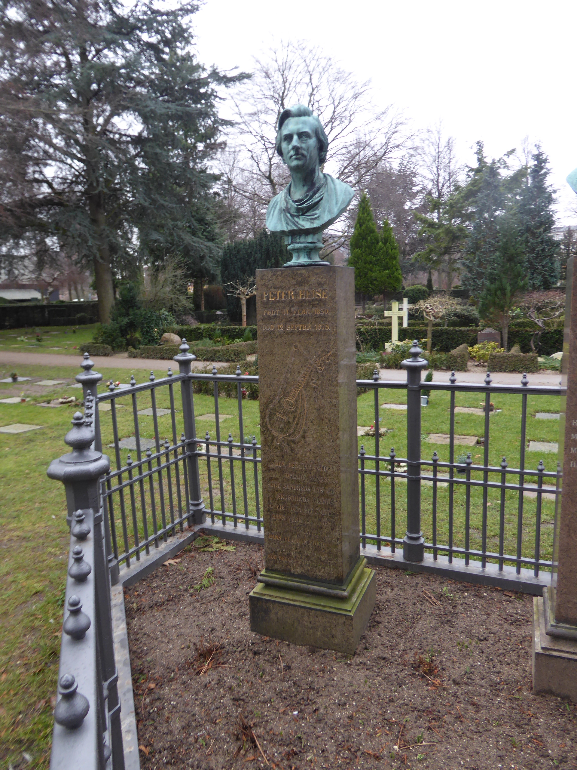 Grave of the composer Peter Heise (1830-1879) at Holmens Kirkegård in Copenhagen.